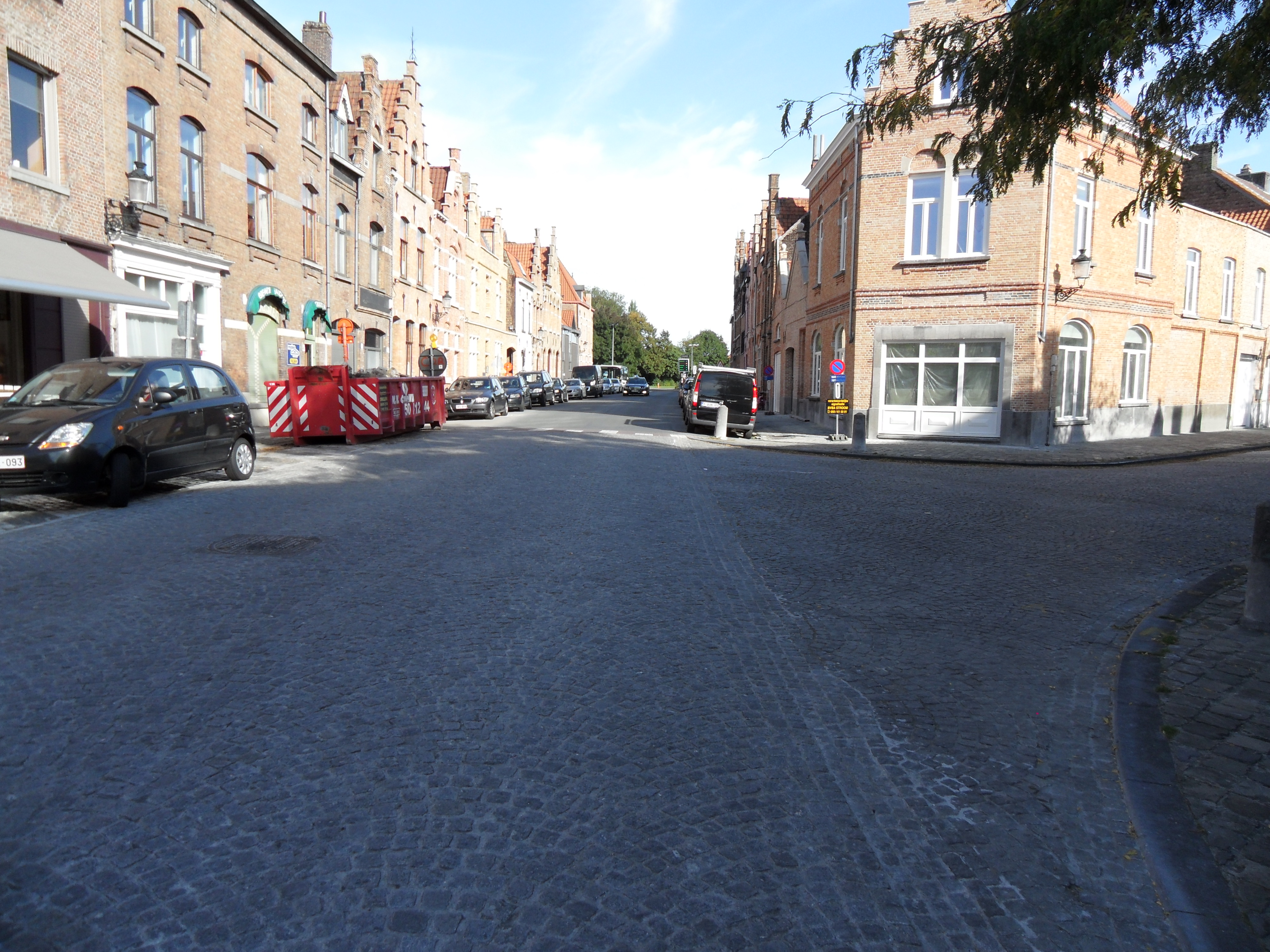 Walweinstraat in Bruges